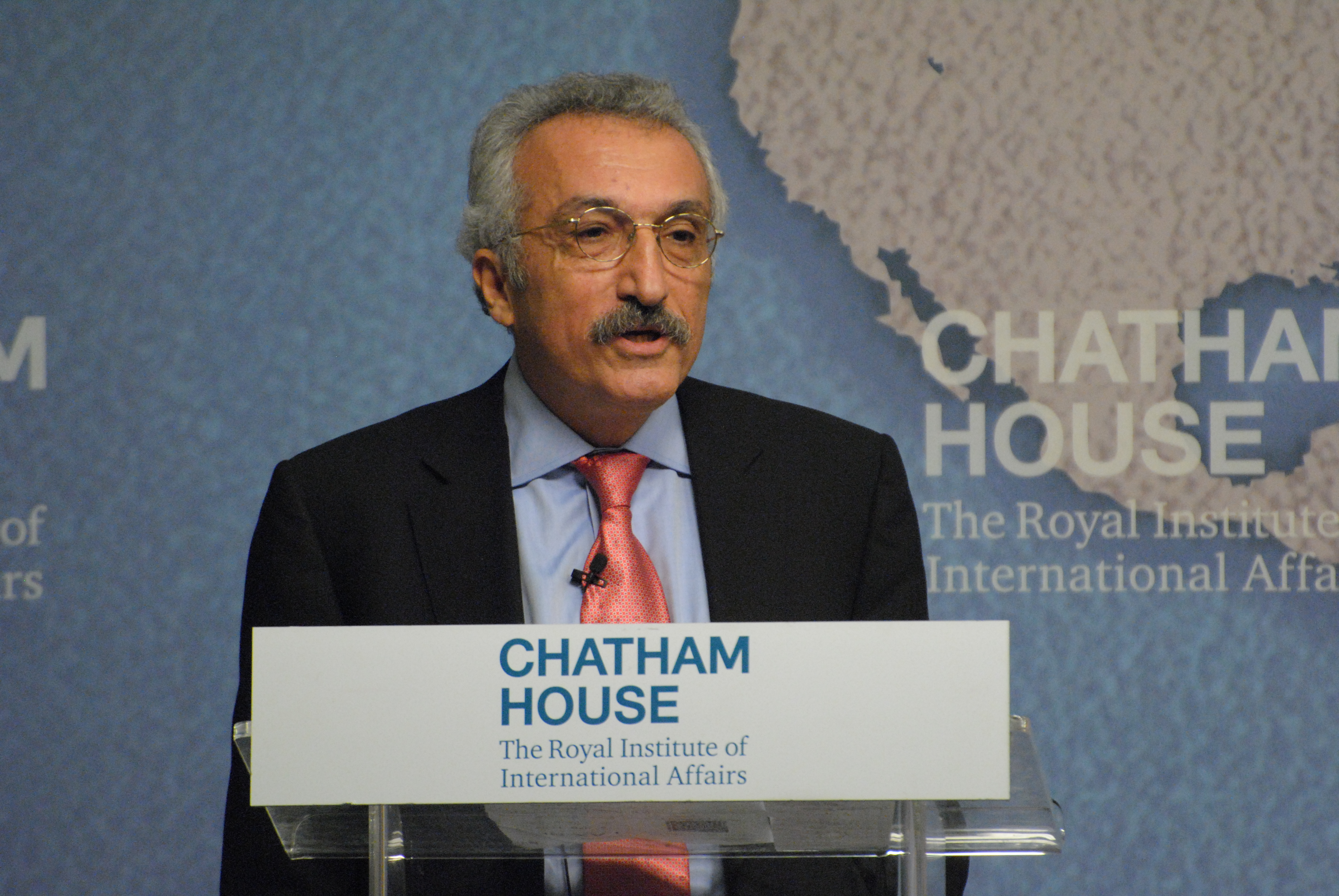 Domestic Dynamics and Foreign Policy: Transition or Trauma in Iran?, 27 November 2014, cht.hm/1y8bww4